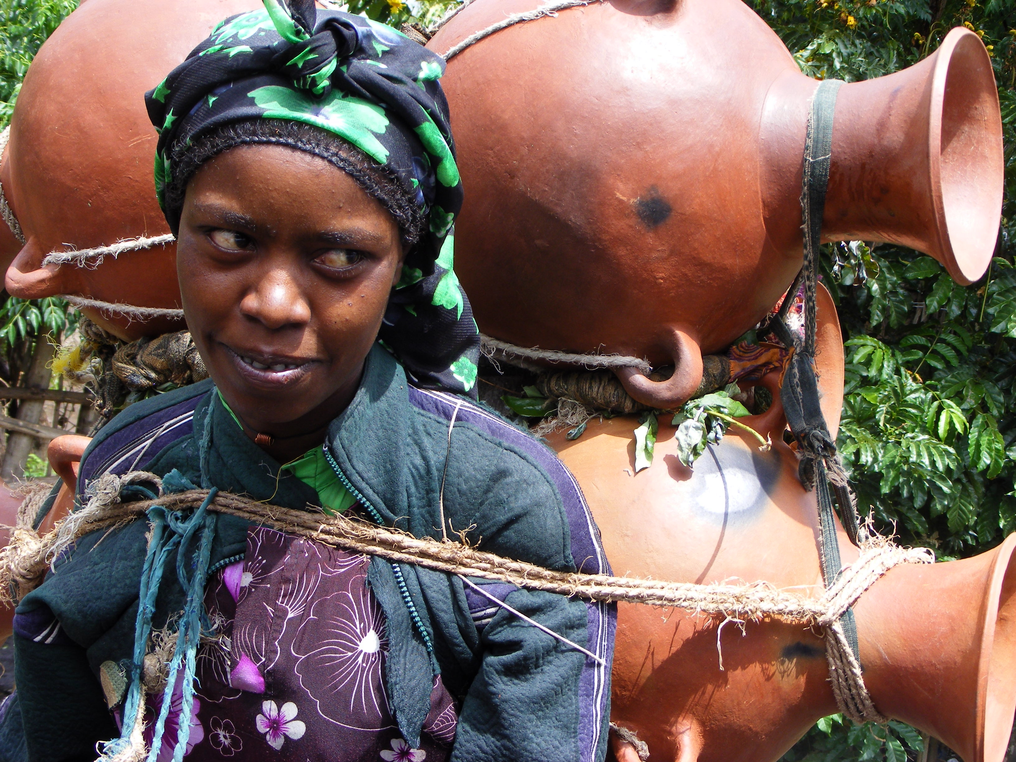 This is an image with the theme "Africa on the Move or Transport" from: Ethiopia